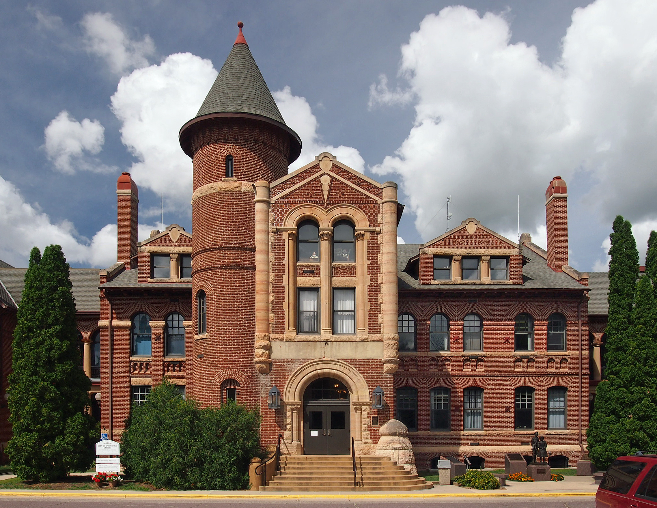 Administration Building--Minnesota State Public School For Dependent and Neglected Children, Owatonna, Minnesota, USA. Viewed from the east using a stepstool, corrected for tilt distortion.